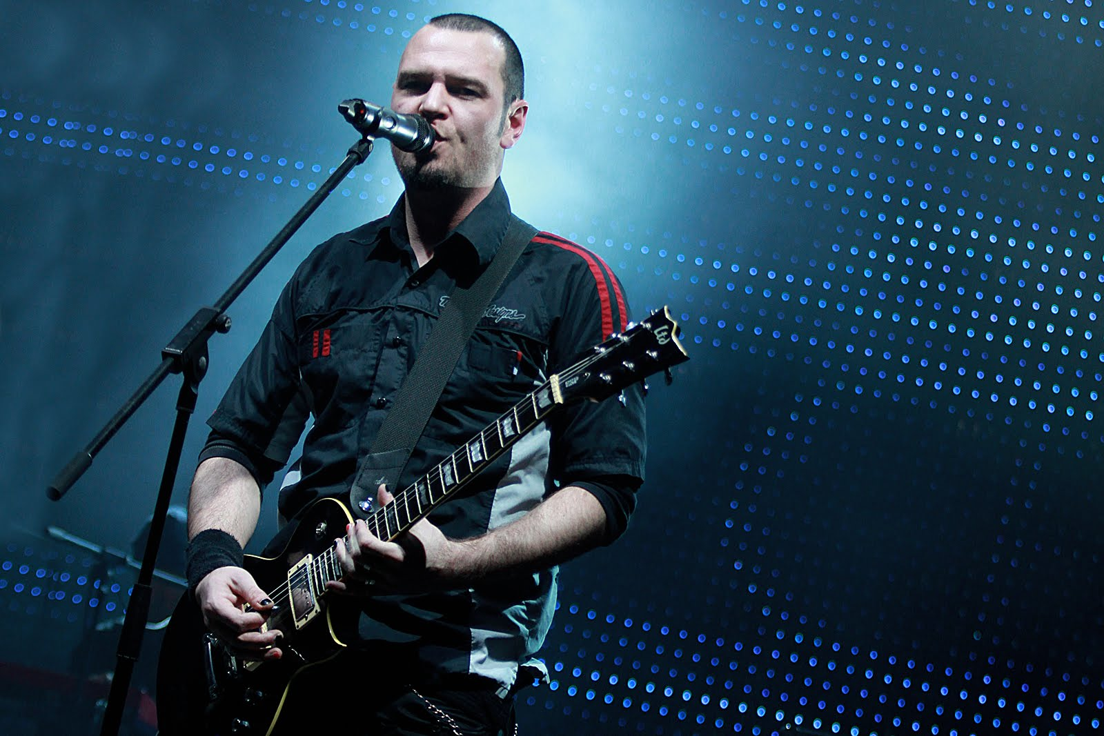 Zlata lisica 2011 - Tomi Meglič